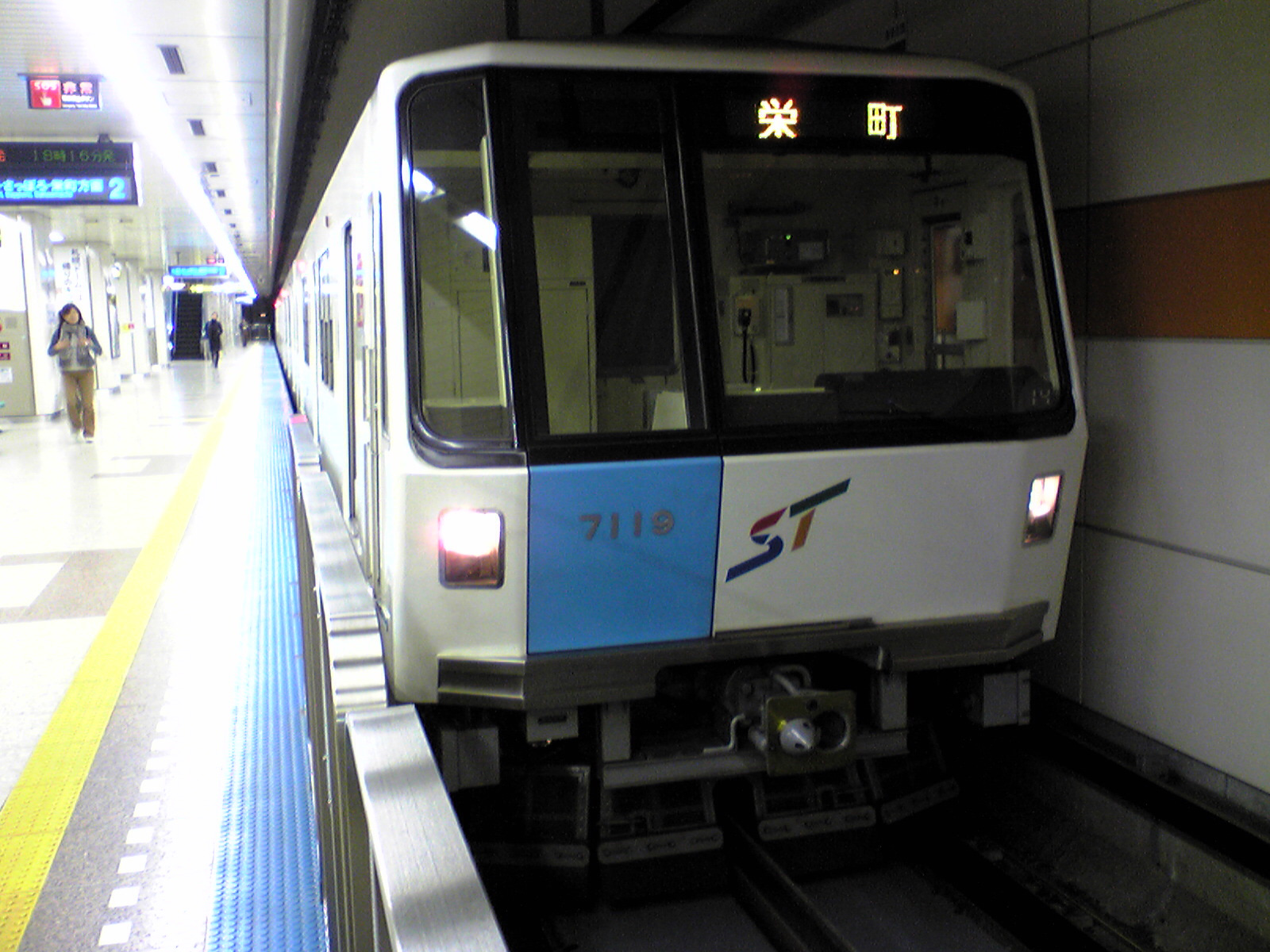 Sapporo City Transportation Bureau 7000-Type Railcar, Tōhō line, Sapporo-city, Japan. Taken by Bellz asamidou on October 14, 2007.